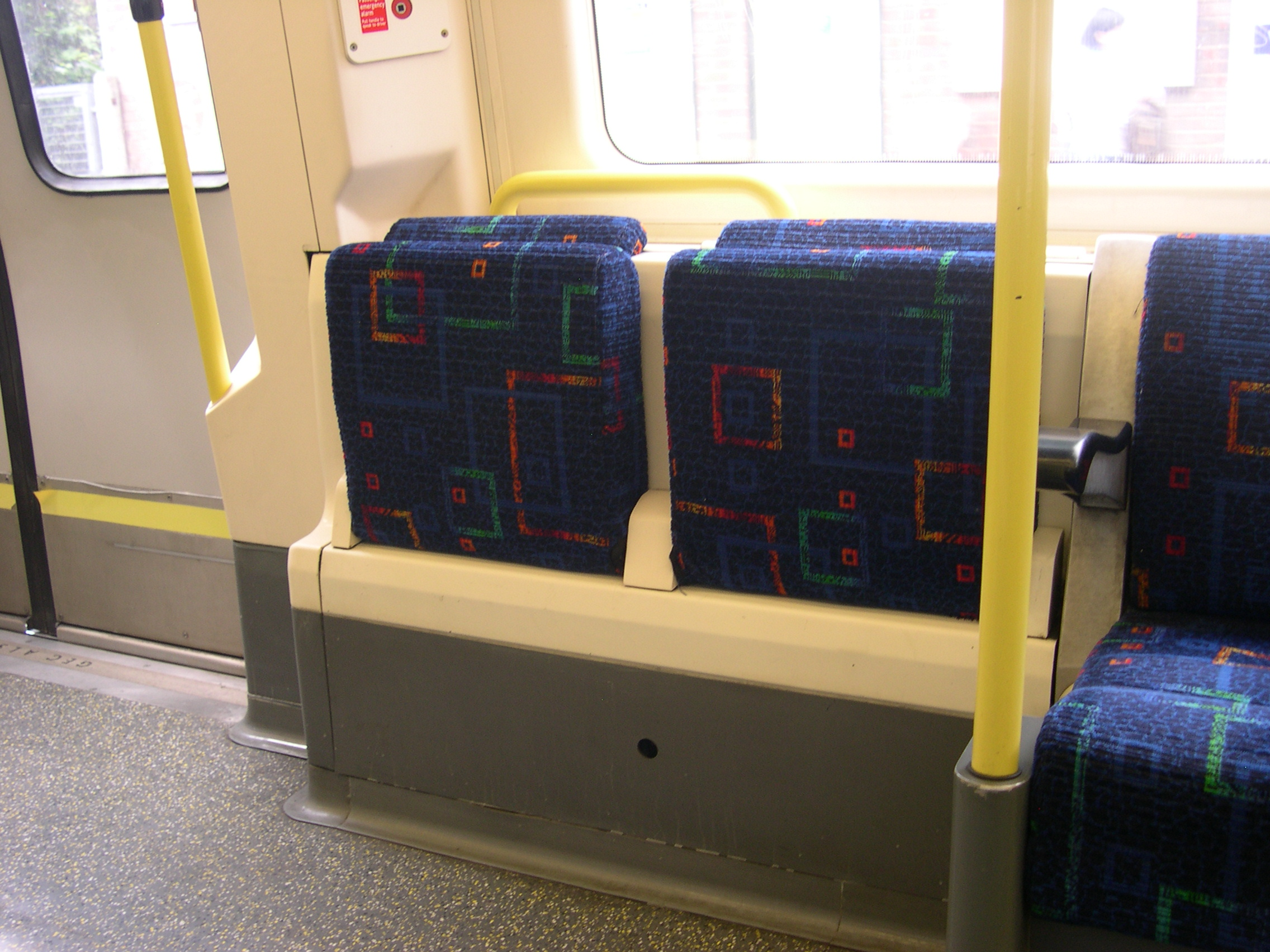 Folding seats on a 1995 tube stock